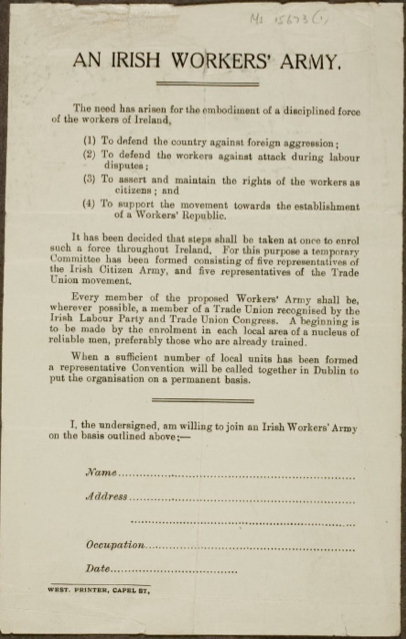 Irish Citizen Army Recruitment Poster